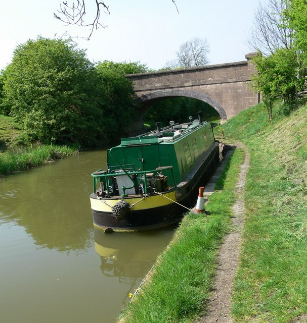 Smeeton Road Bridge, Leicestershire Located along the Grand Union Canal close to Saddington and Smeeton Westerby.